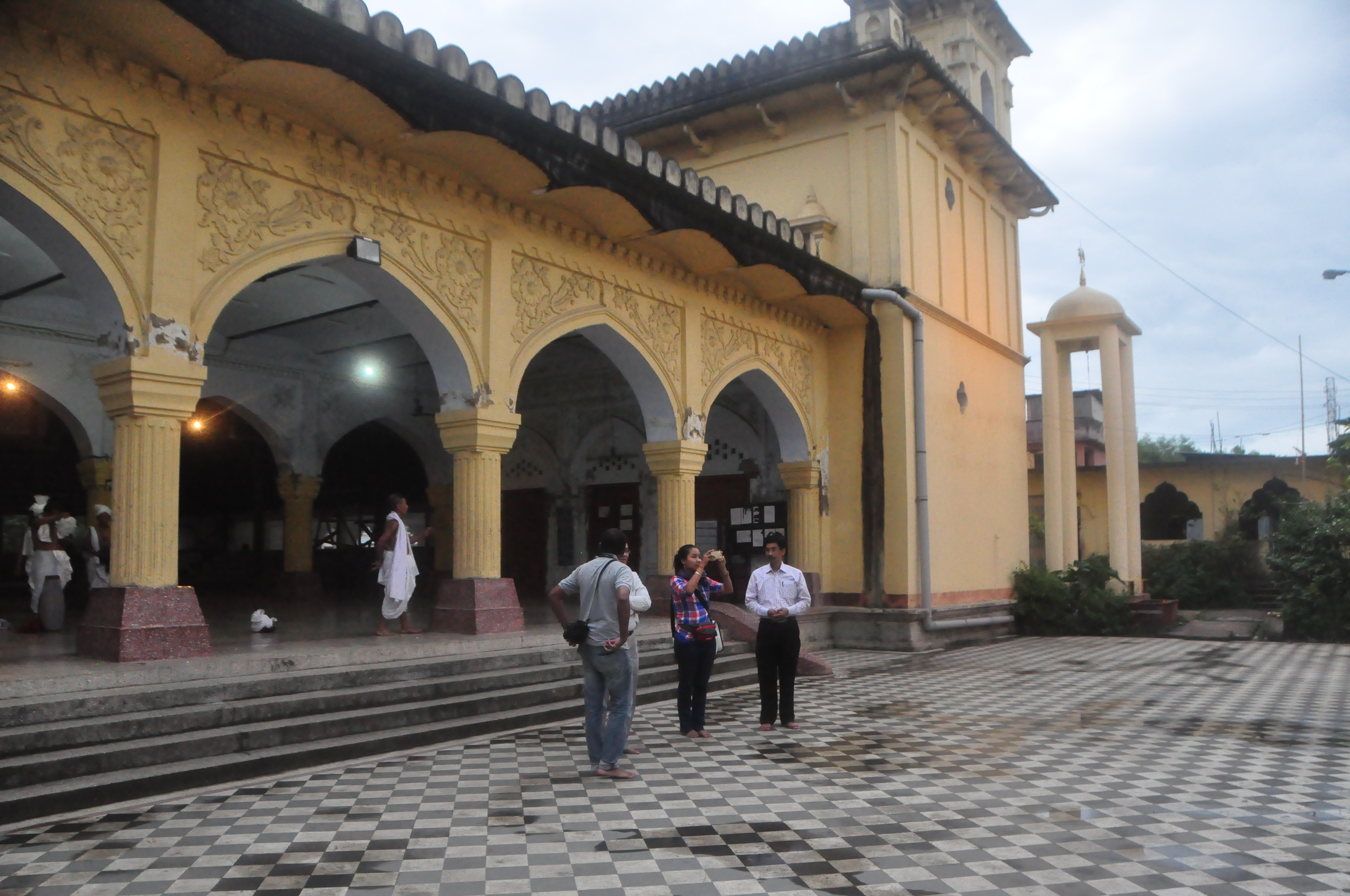 Shree Govindaji temple, Manipur.